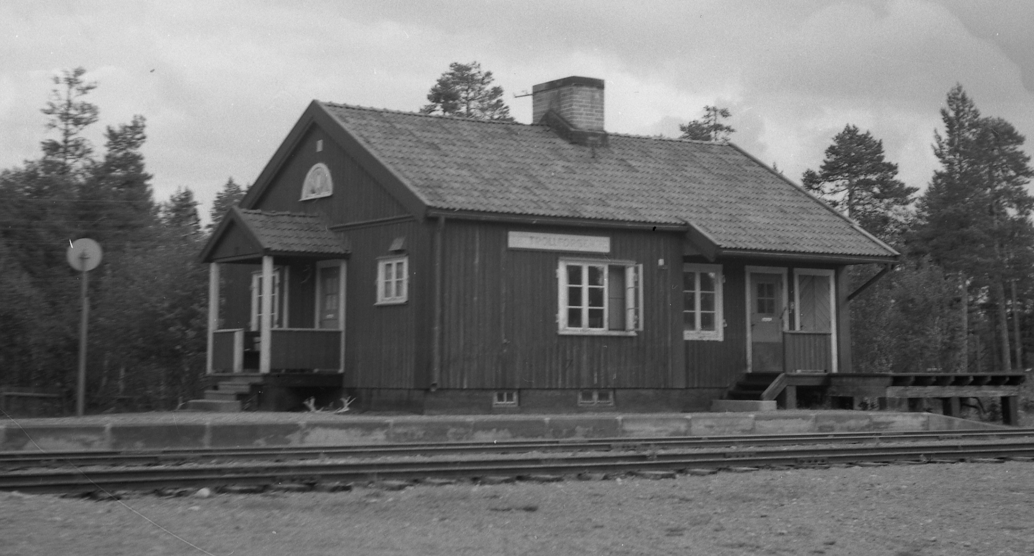 Trollforsen station 1965